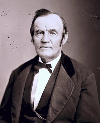 Photographic portrait of Thomas Nickerson. Served as the cabin boy on the ship Essex, sunk by a whale, November 20, 1820, west of the Galapagos Islands, in the Pacific Ocean. Wrote account of sinking.